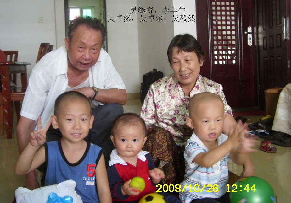 Mr.wujishou and his boys